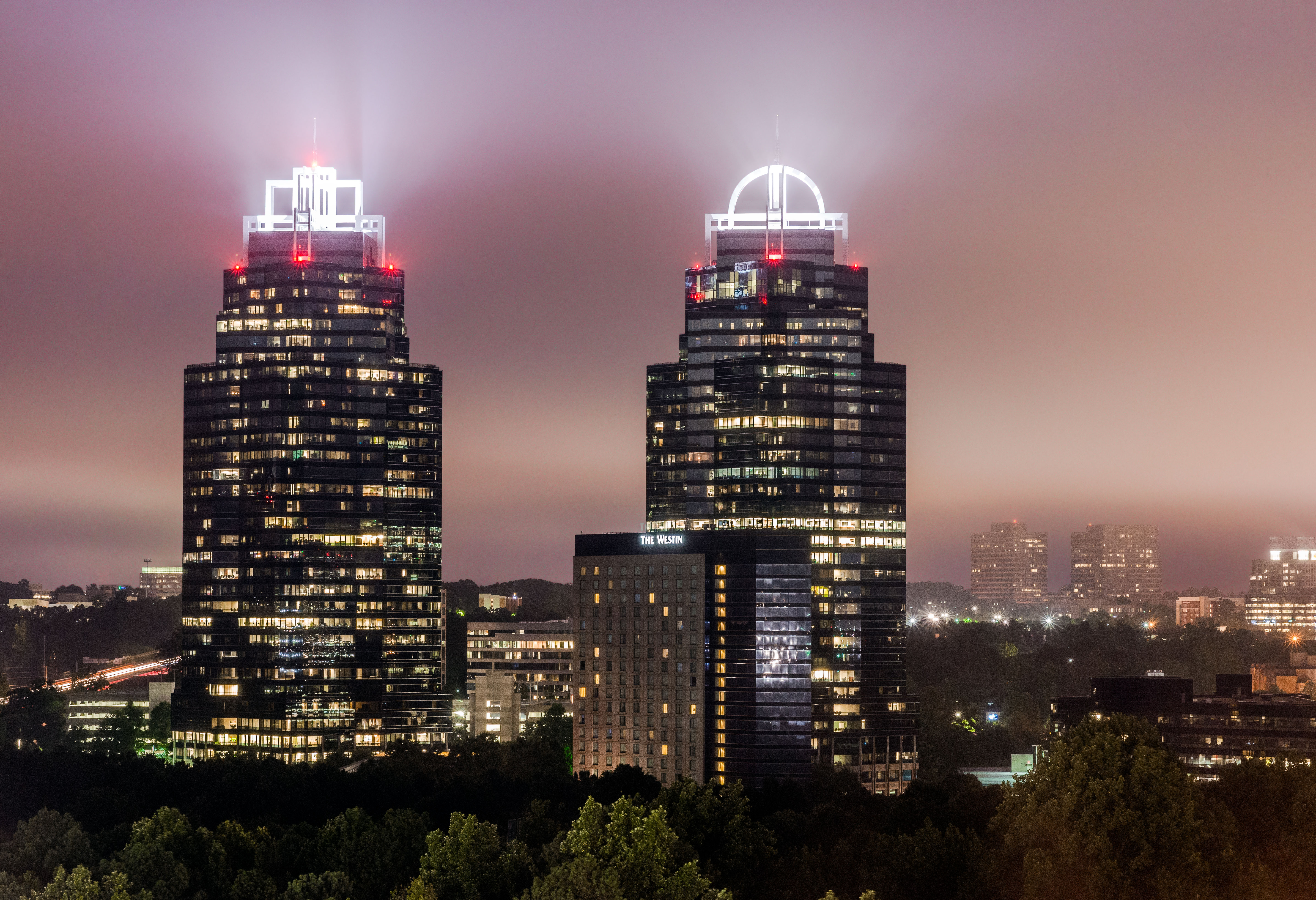 Concourse Corporate Center V and VI, but are known locally as "the King and Queen towers" at night. Atlanta, GA, USA.